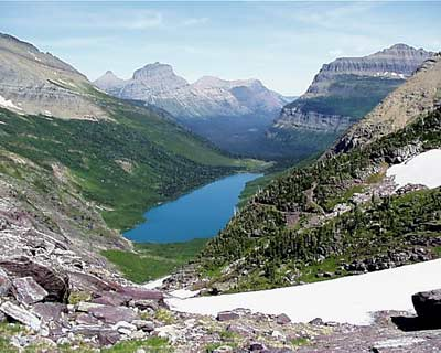 Gunsight Lake from Gunsight Pass, Glacier National Park, Montana USA